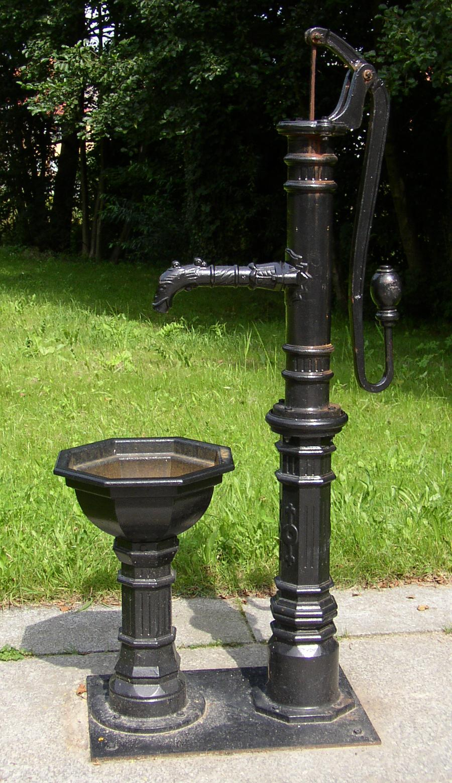 Manual Pump in Belzig, Germany